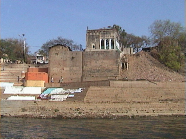 See Varanasi Development Cooperation Handbook/Stories/Responsible Development - Varanasi The Varanasi Heritage Dossier Kautilya Society Mediendatei abspielen Vrinda Dar - How we got involved in heritage protection of Varanasi